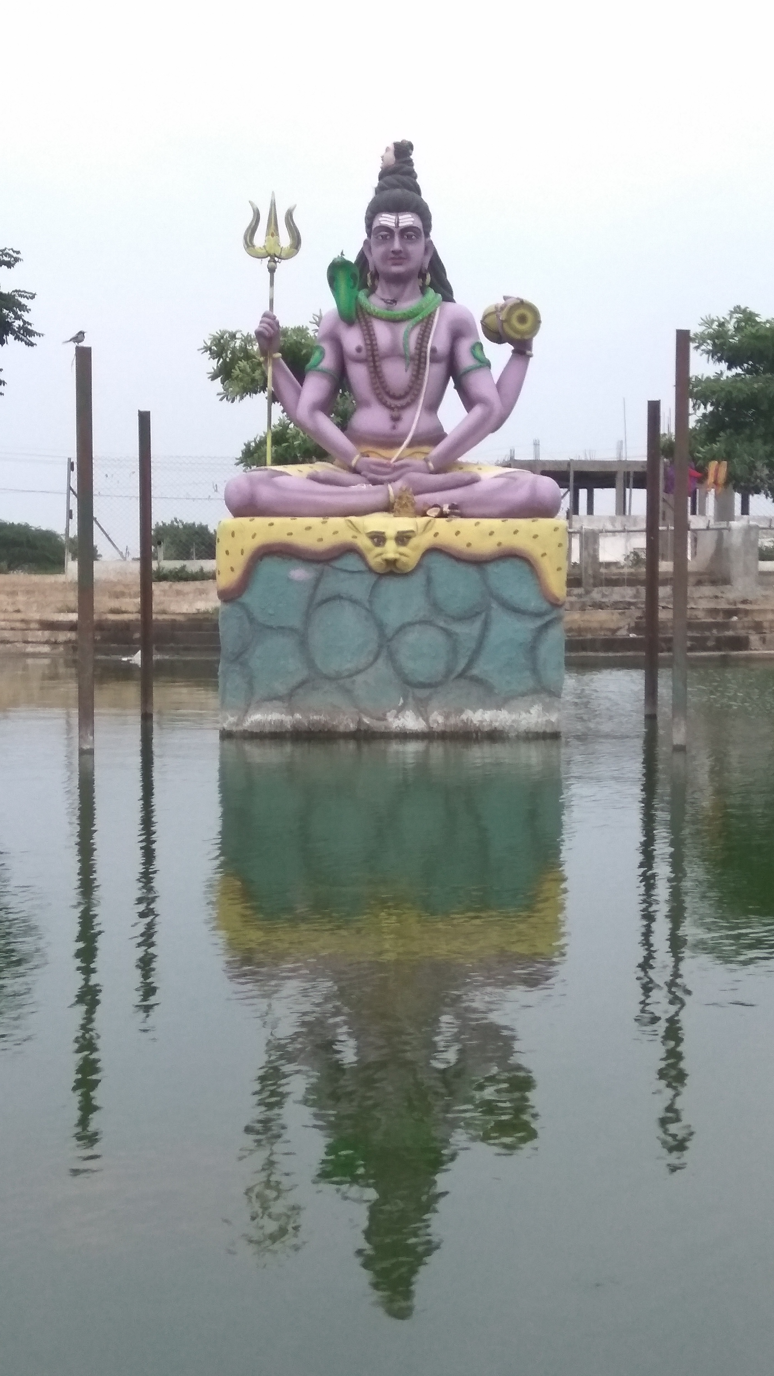 Shiva Statue in Lake at Rameshwara Temple, Raikal, Farooqnagar, Mahbubnagar District,Telangana State